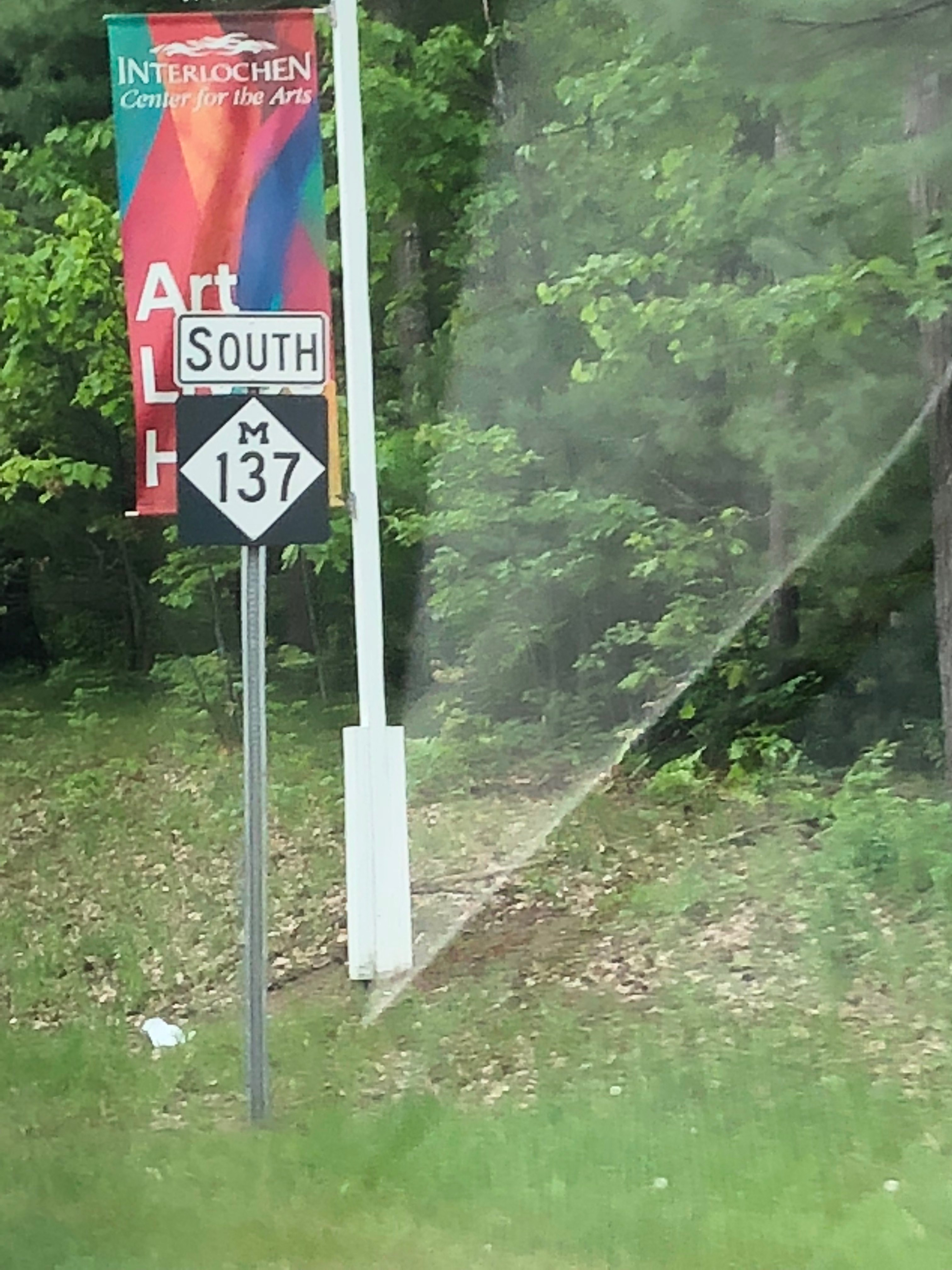 M-137 reassurance sign near Interlochen, Michigan